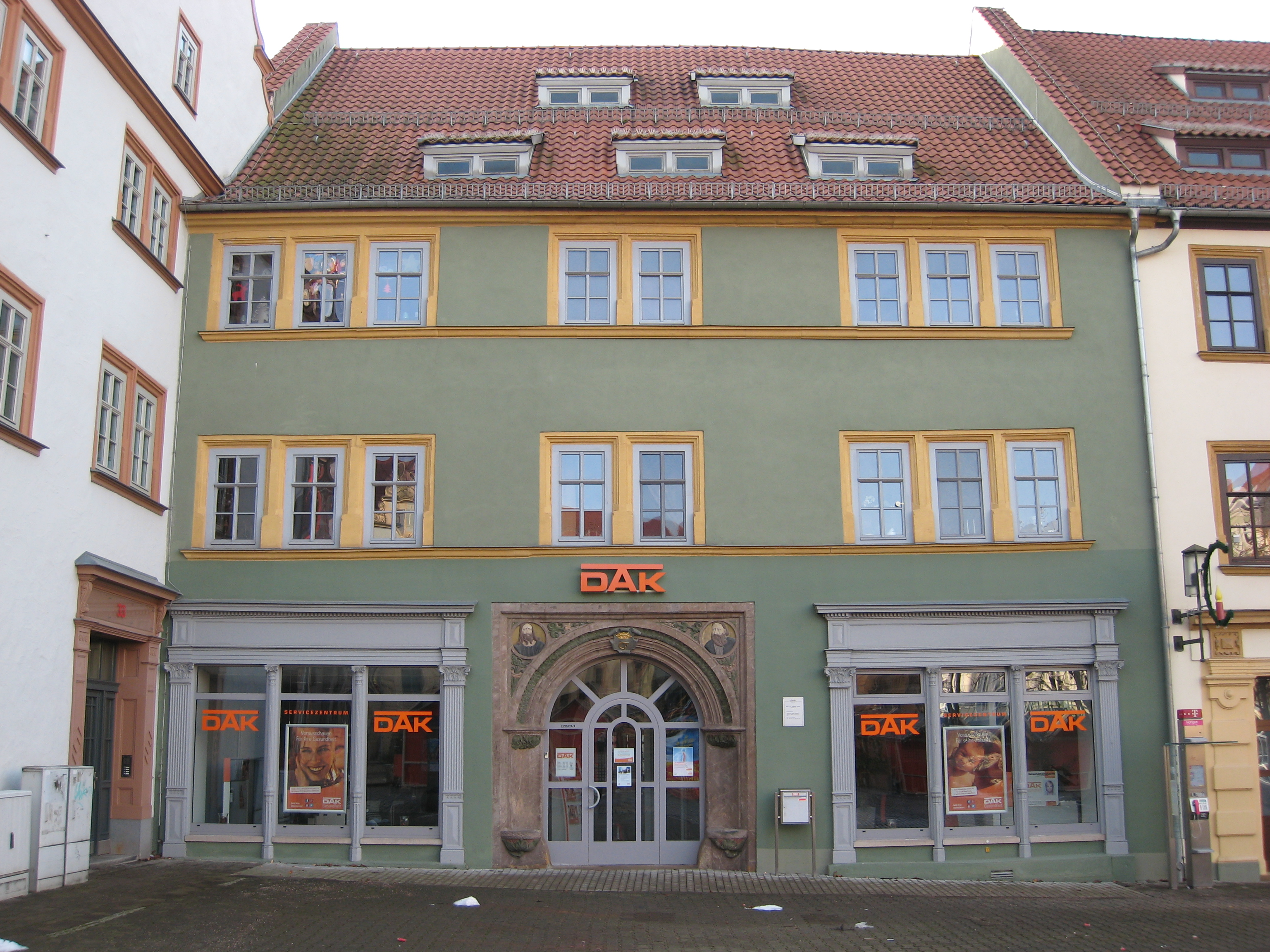 House Hauptmarkt 34 Gotha